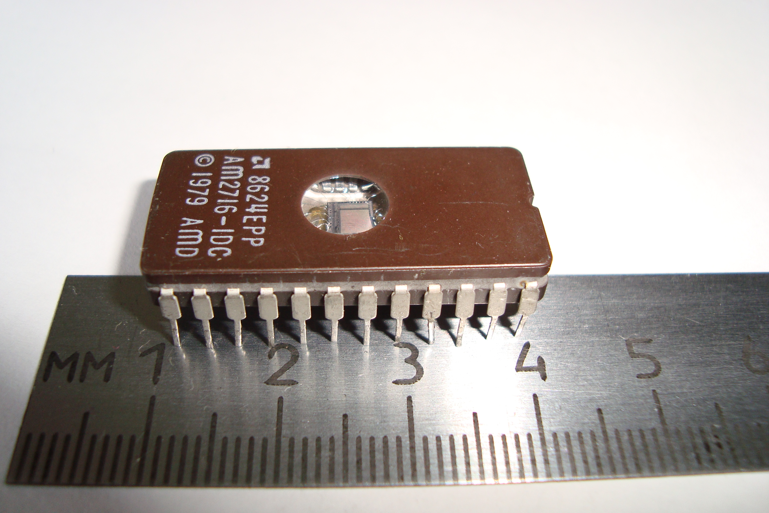 AMD 8624EPP AM2716-IDC 1979